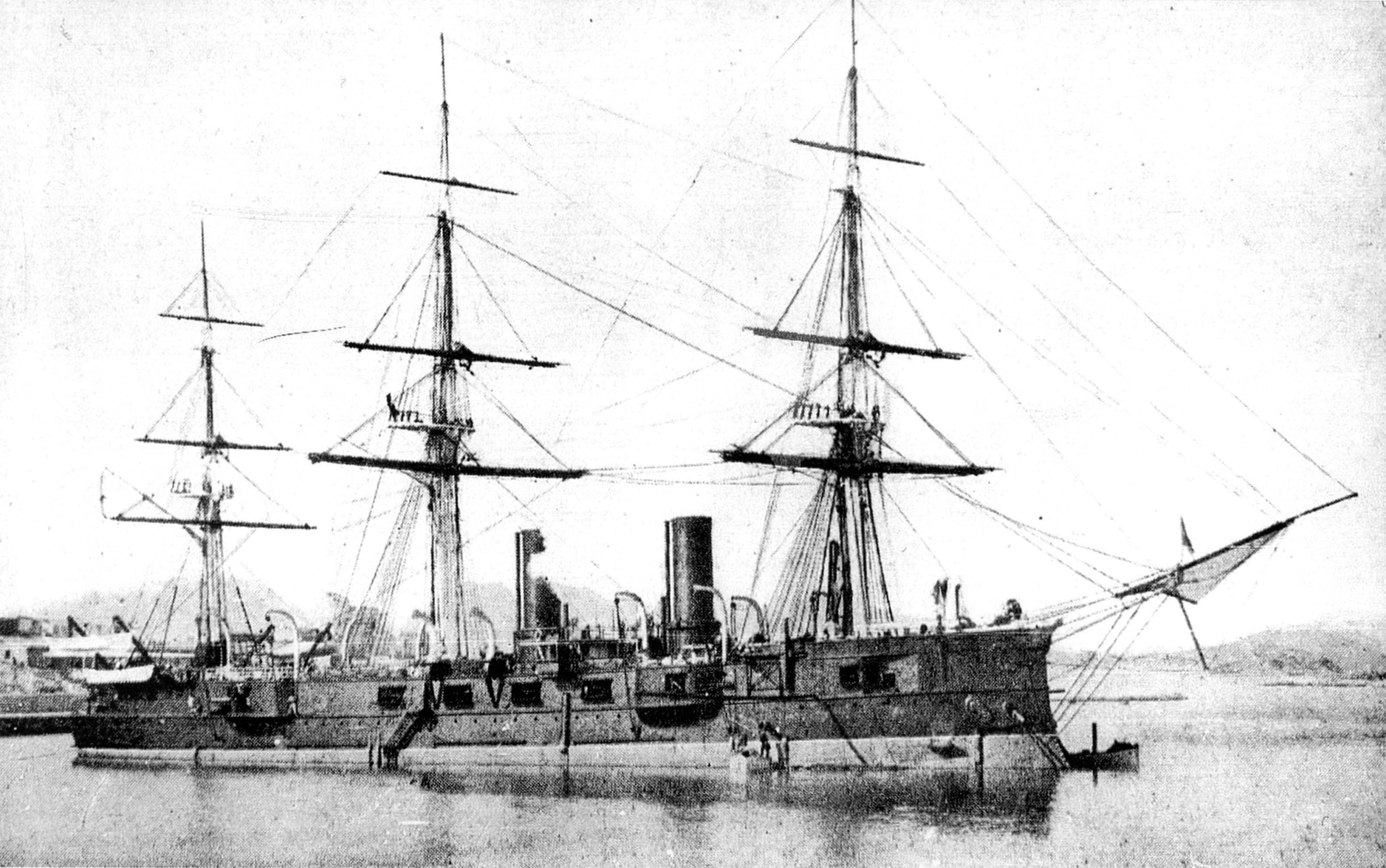 The Imperial Russian semi-armoured frigate Vladimir Monomakh, between later 1880 and early 1890.